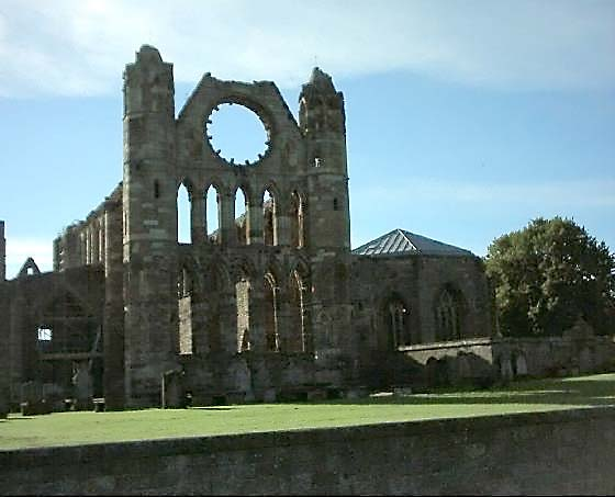 Elgin cathedral Author: Lysy